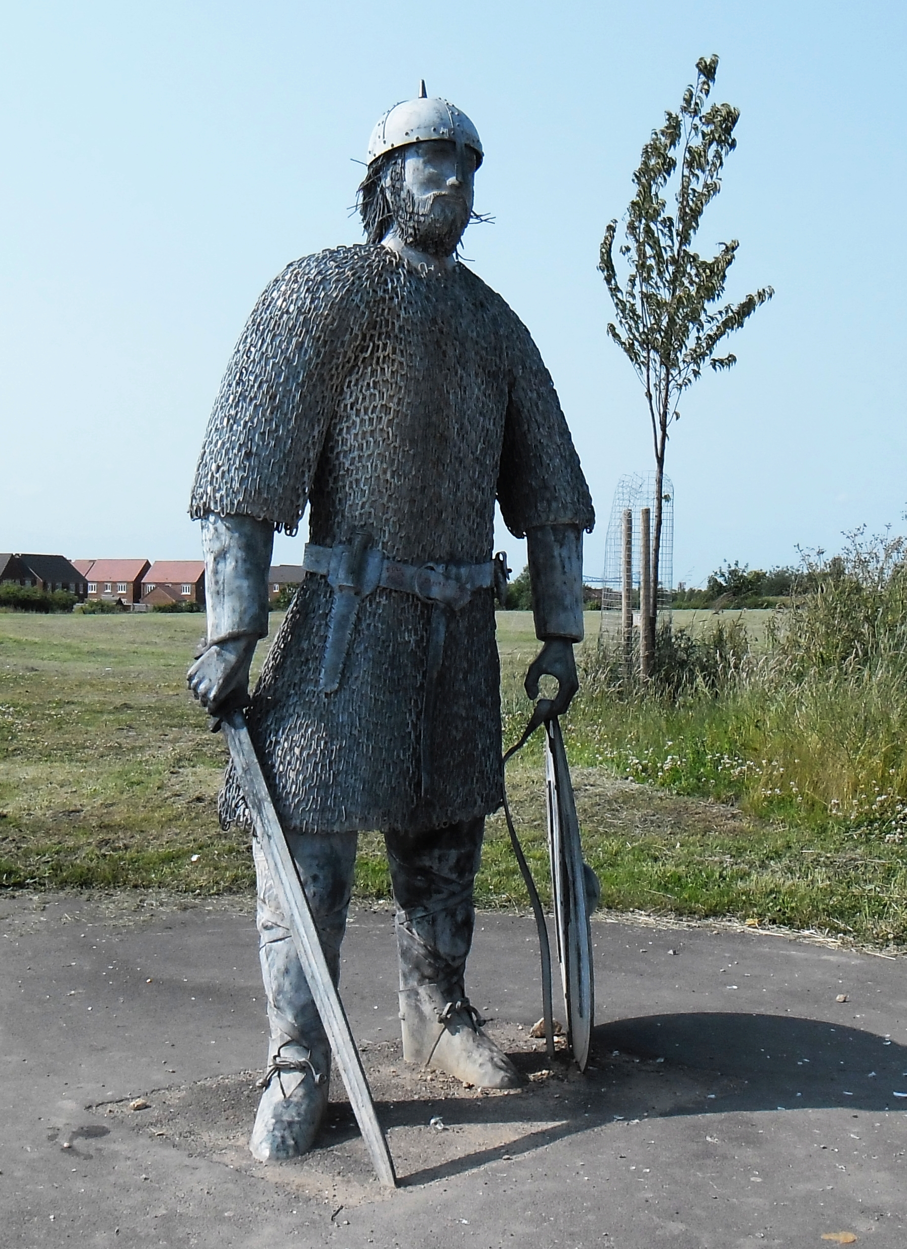 The sculpture of Orme the Viking, Middlesbrough